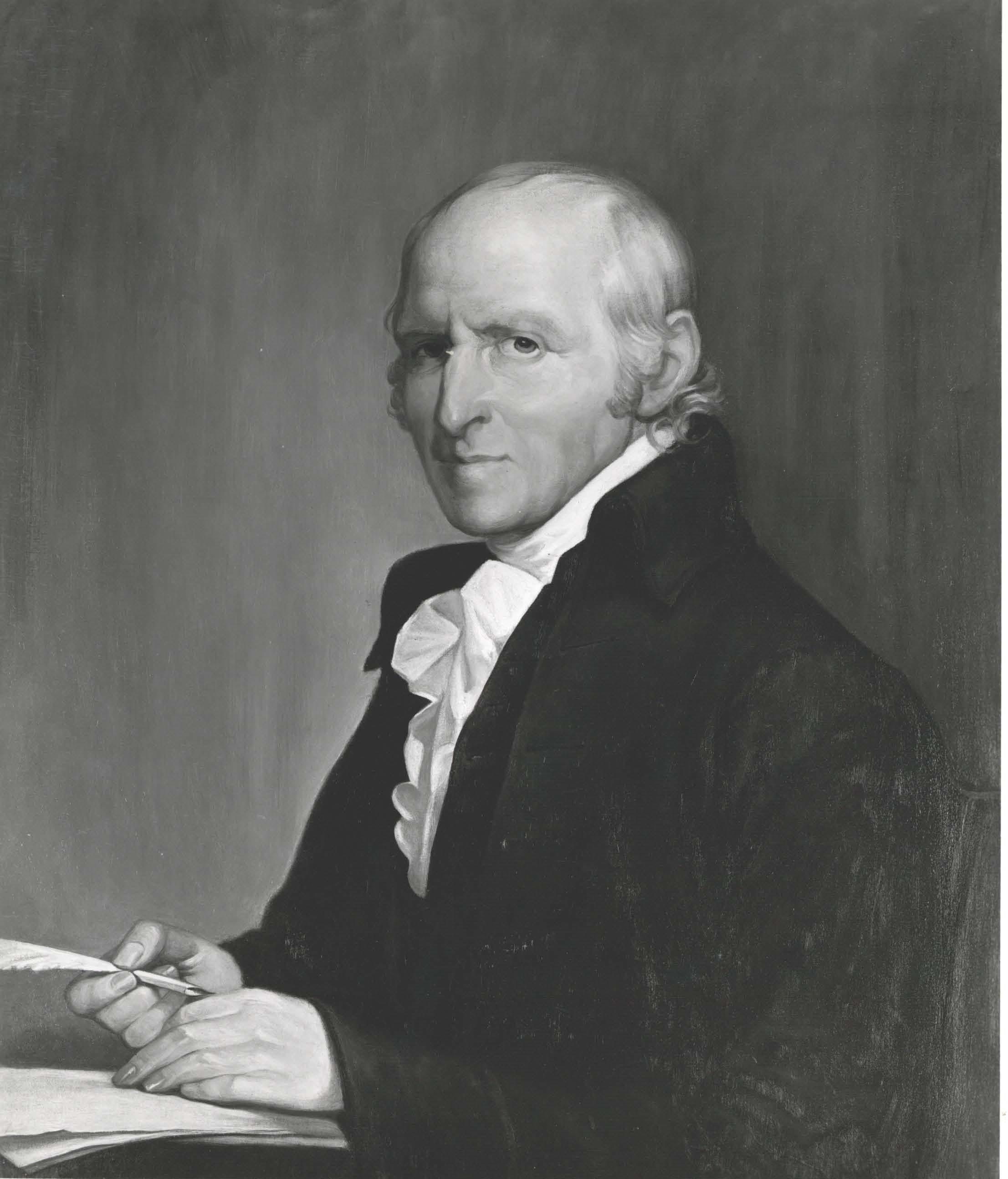 Timothy Pickering, U.S. Secretary of State, (ad interim August 20, 1795 to December 9, 1795) December 10, 1795 to May 12, 1800